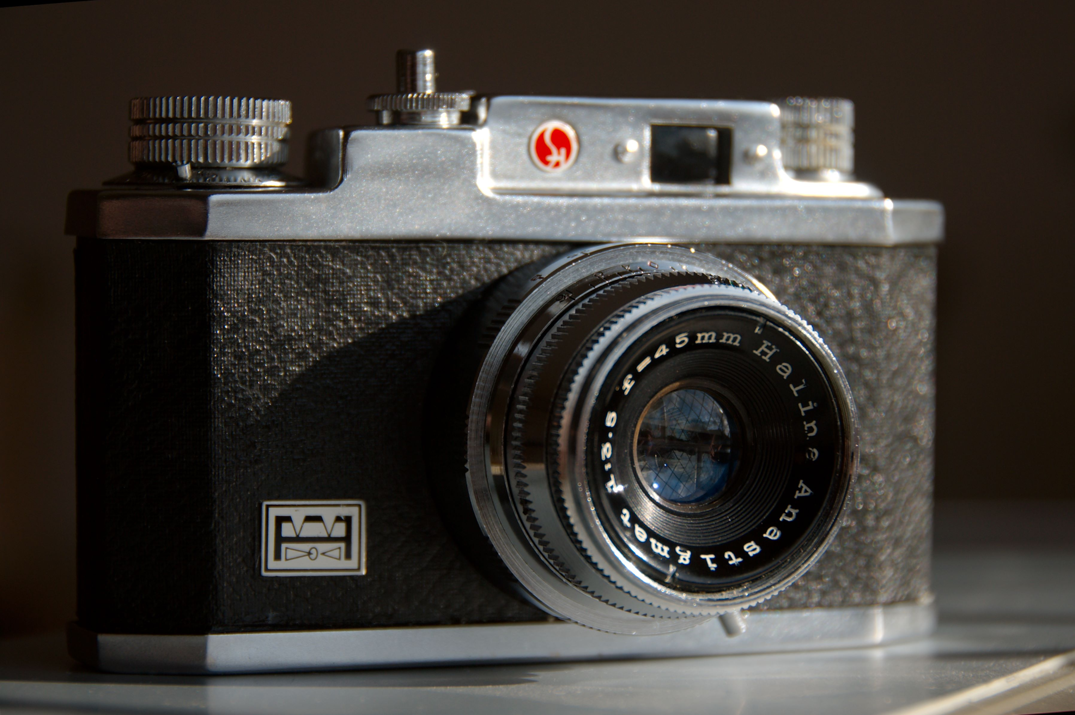 Halina 35x camera - this is a viewfinder camera made by Haking in Hong Kong.